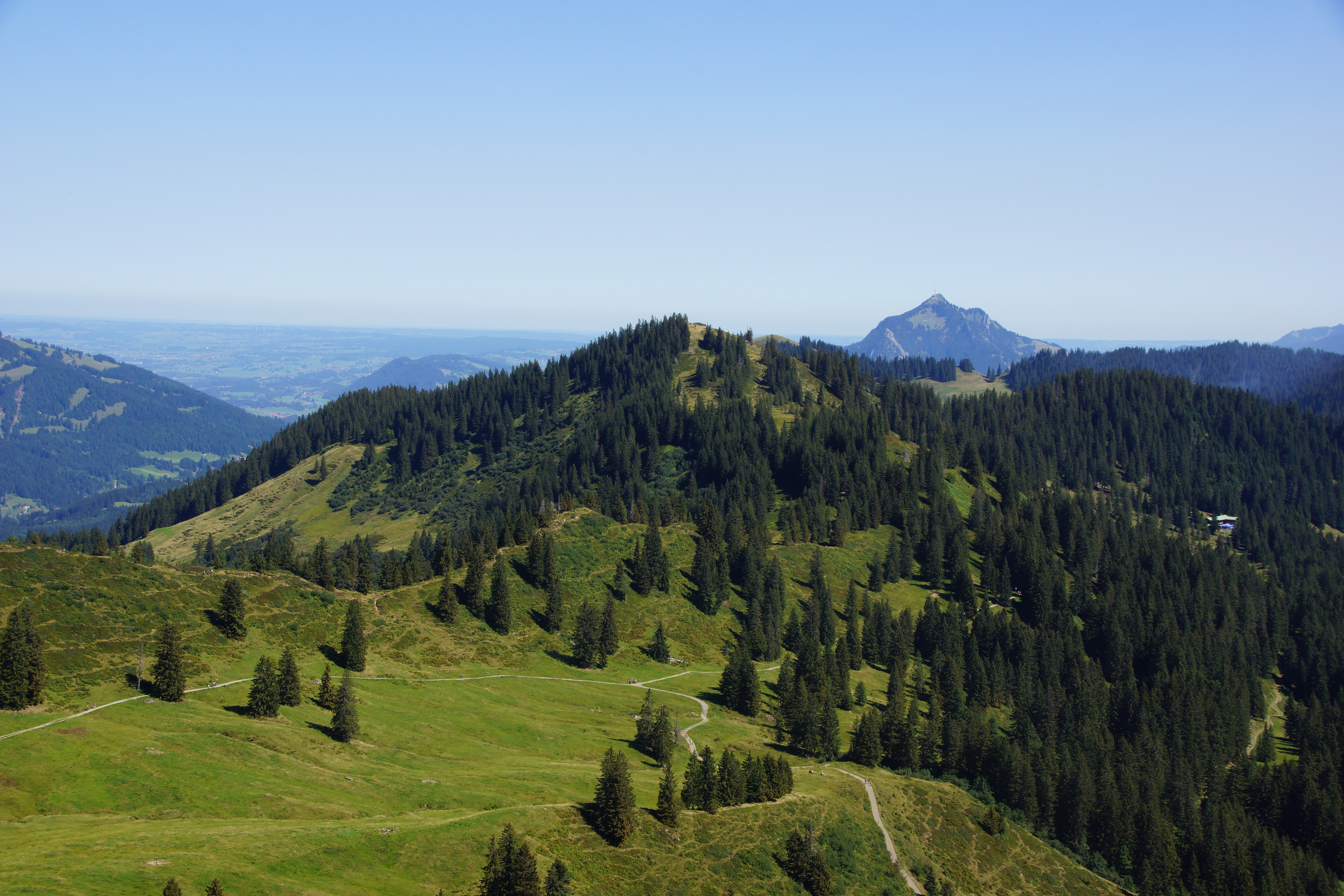 Großer Ochsenkopf seen from Riedberger Horn.